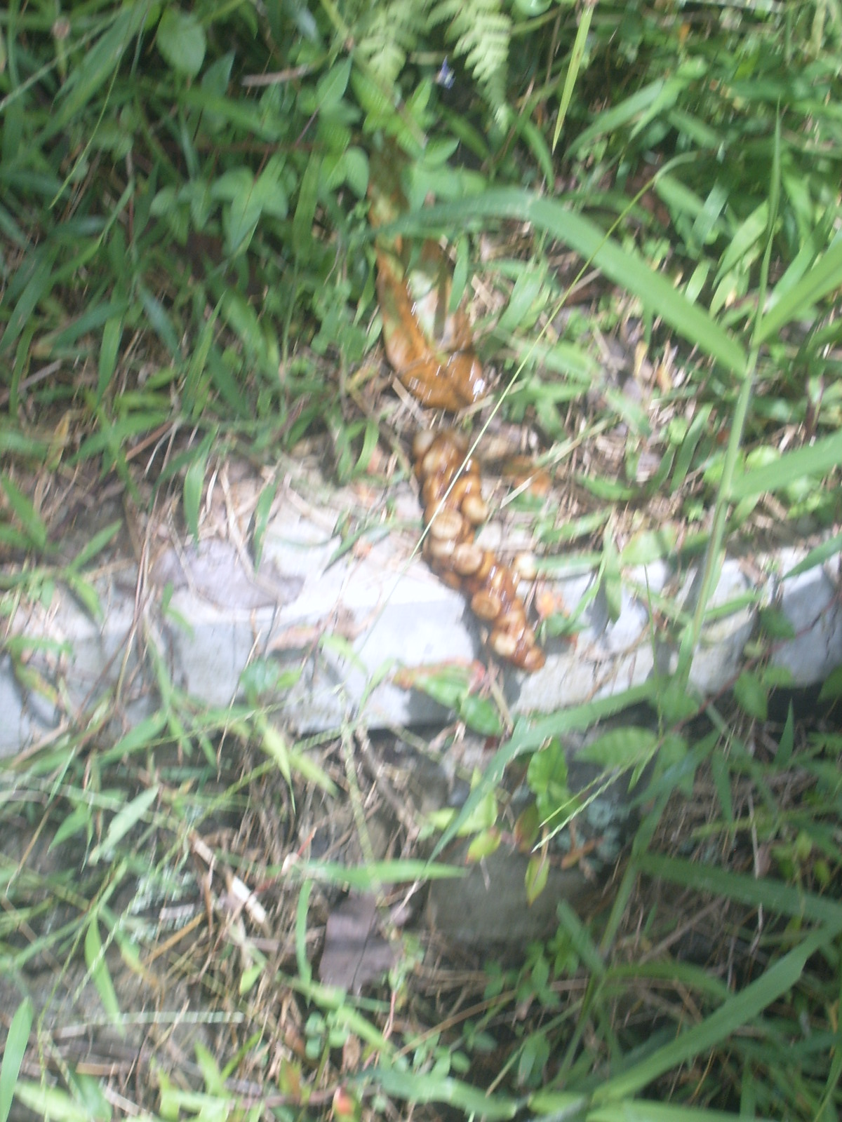 Base for Kopi Luwak in a coffee plantation, east Java. Kopi Luwak already digested by Asian Palm Civet, but before cleaning and roasting.